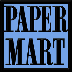 Paper Mart logo